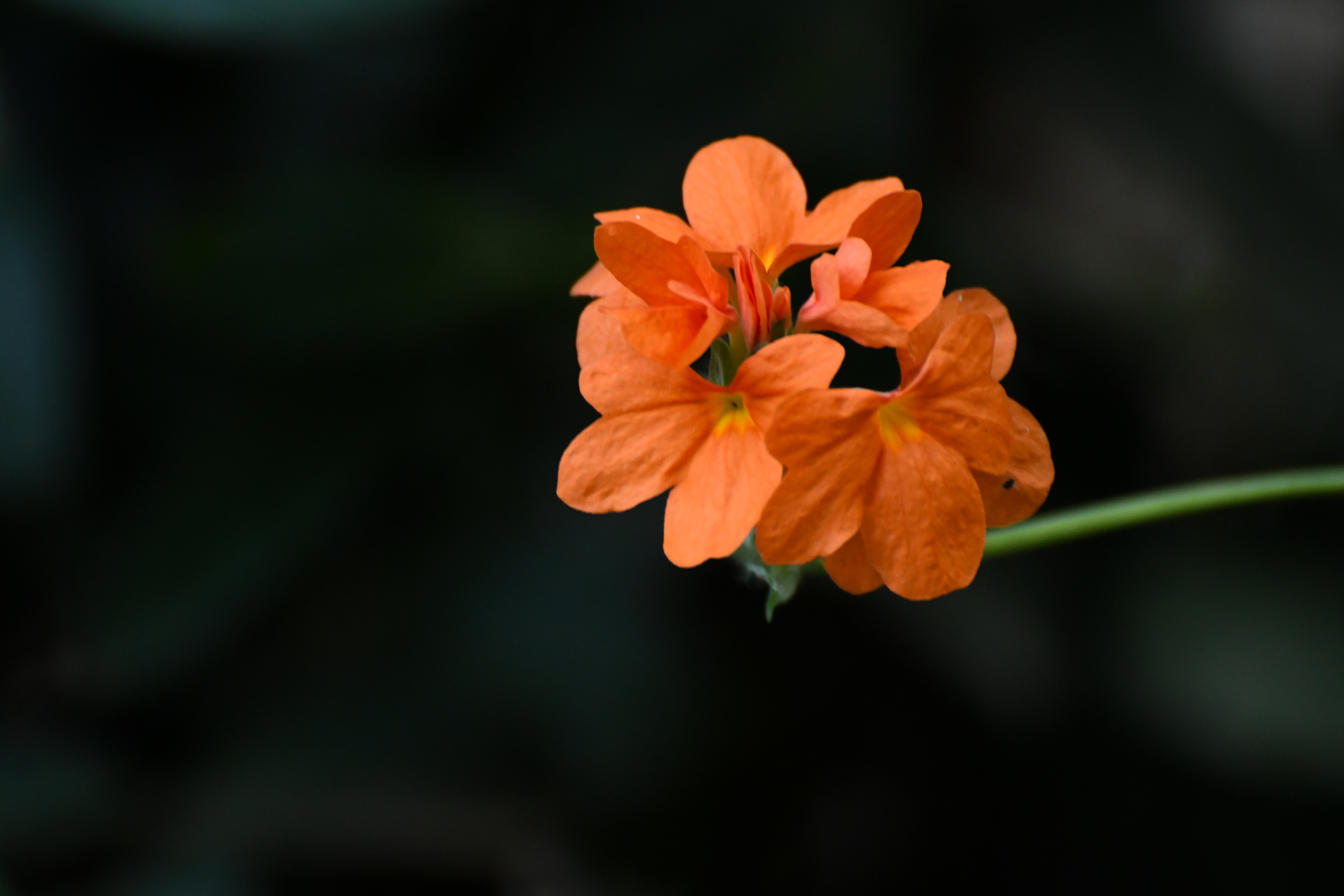 Crossandra infundibuliformis